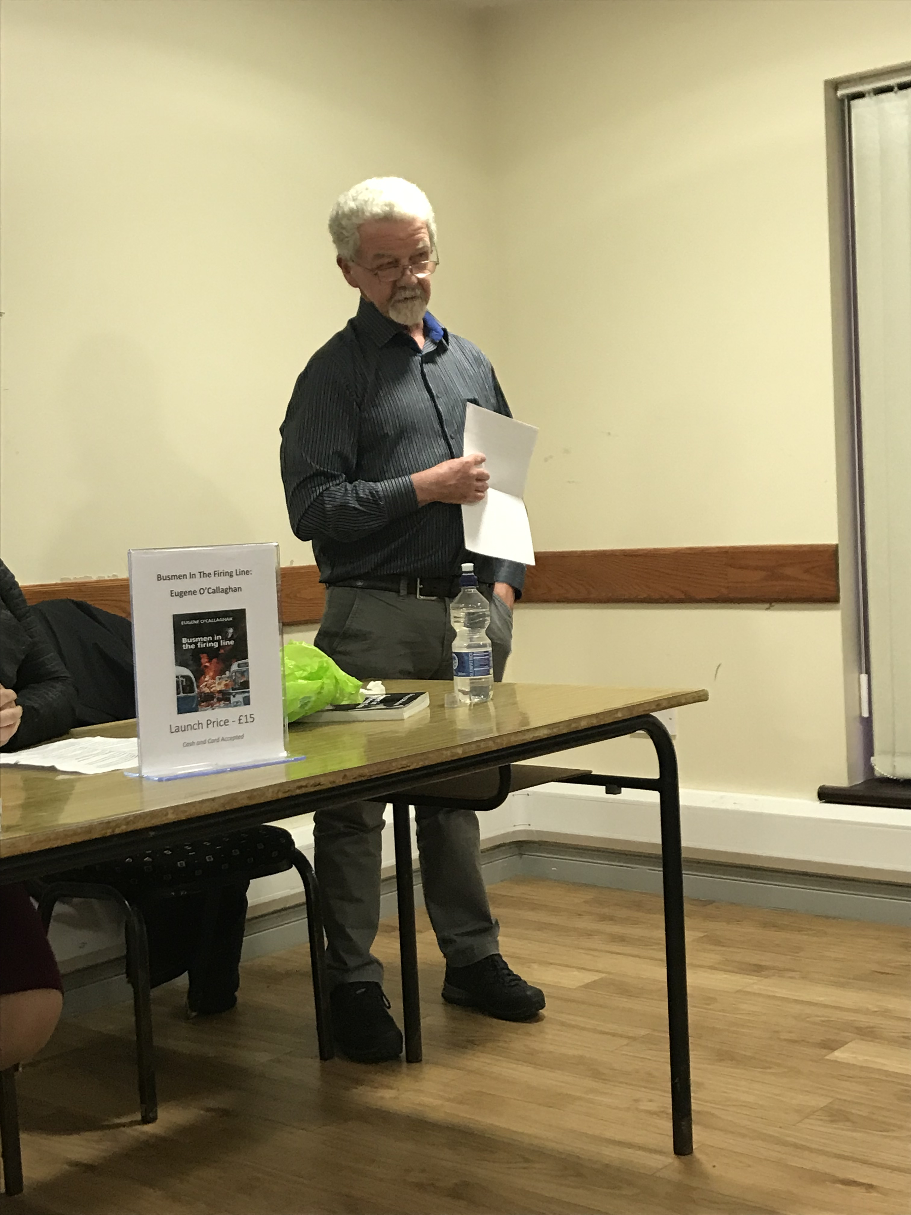 Pat McNamee speaking at launch of "Eugene O'Callaghan - Busmen in the Firing Line", Crossmaglen Rangers Clubhouse, 1st October 2019